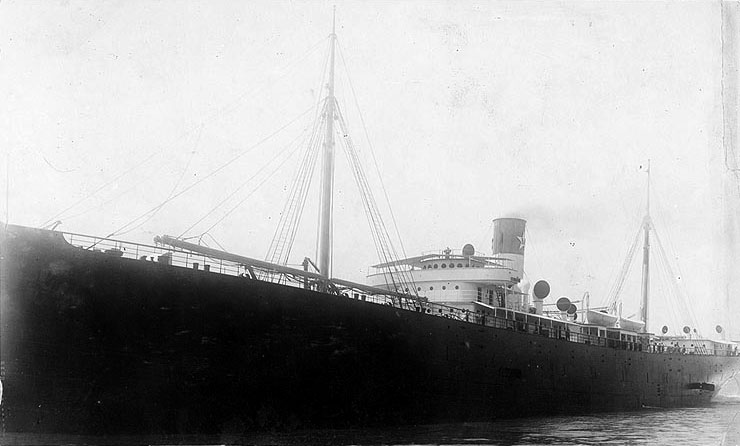 S.S. El Sol (American Freighter, 1910) Photographed prior to World War I. This ship served as USS El Sol (ID # 4505) in 1918-1919. U.S. Naval Historical Center Photograph.